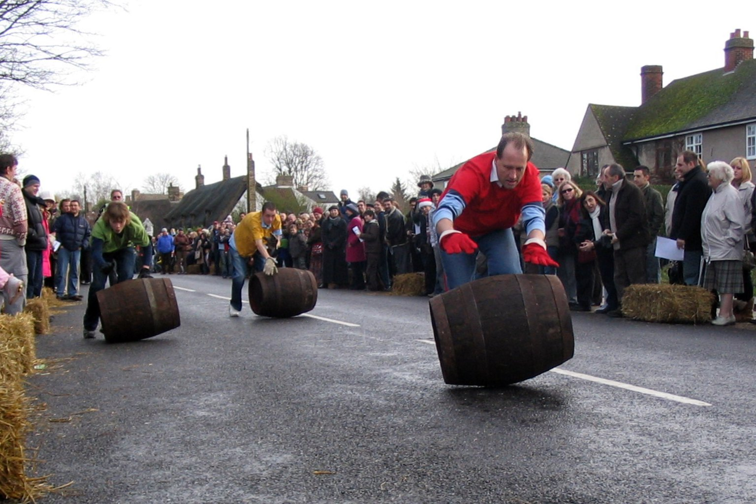 A barrel race in Grantchester in Dec 2007.